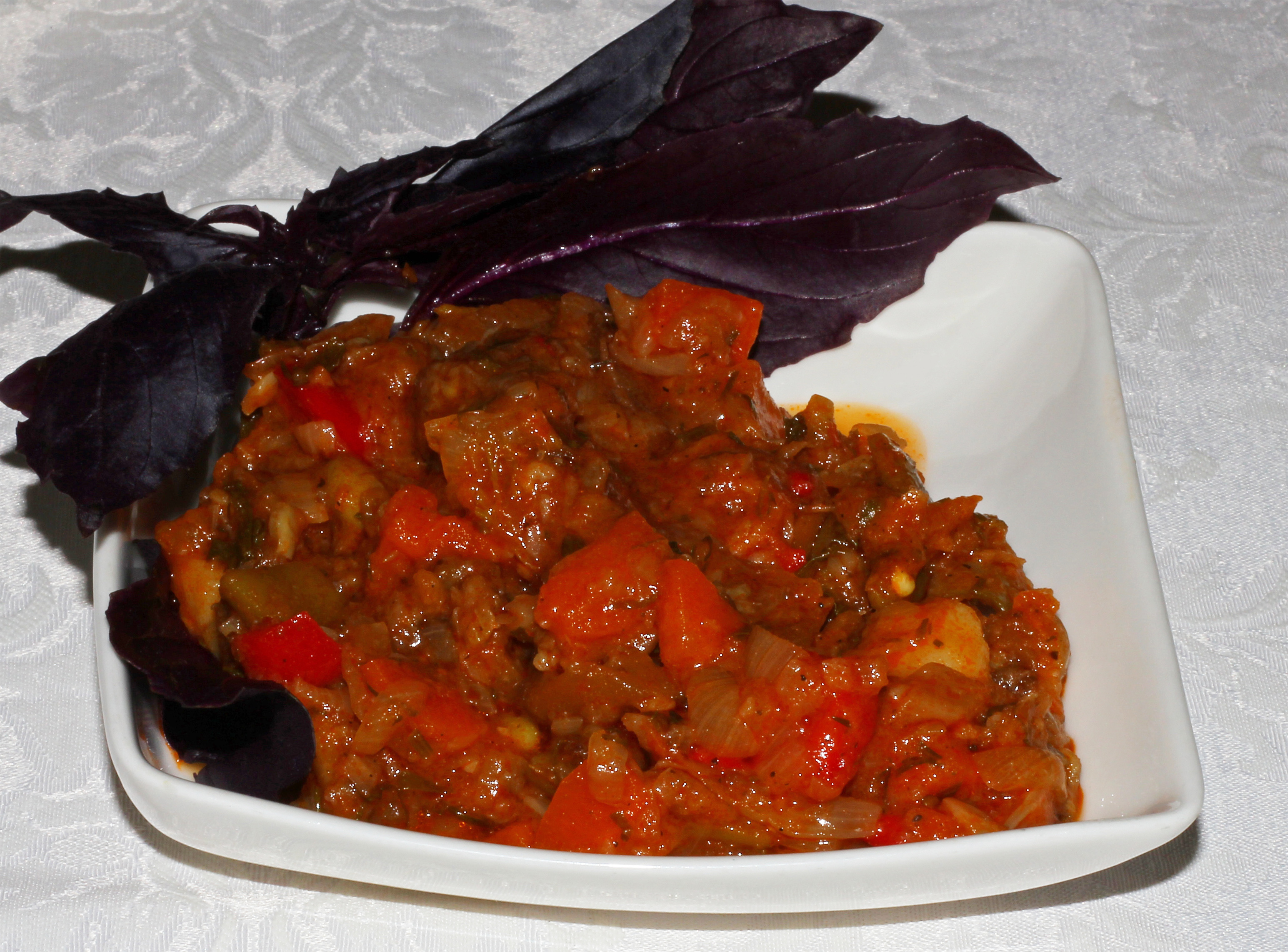 Ajapsandali is a Georgian cold dish made on the base of eggplants. Photograph taken in a Georgian restaurant in Moscow.